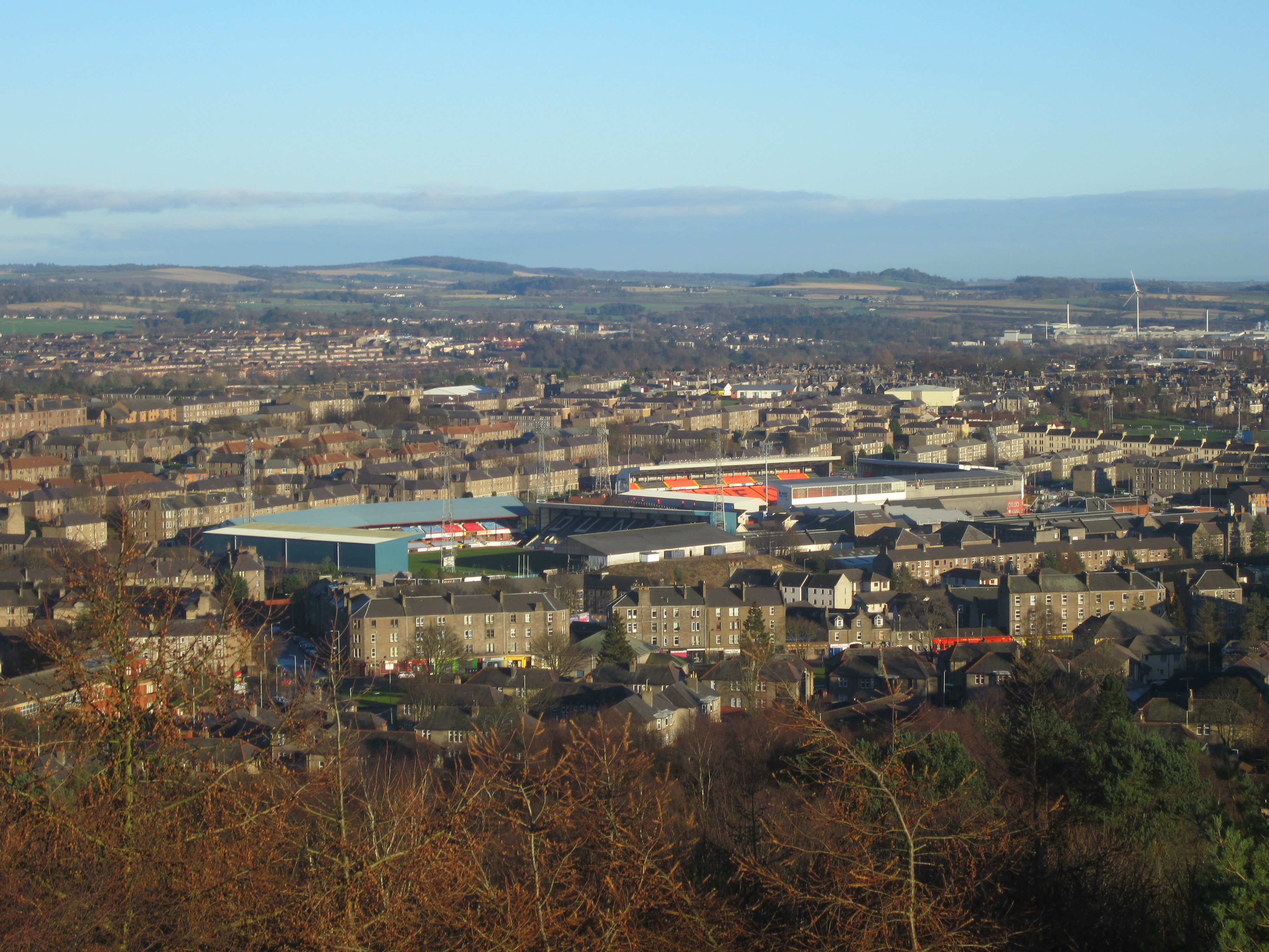 The two football stadiums in Dundee, viewed from the volcanic peak of Dundee Law. Left: Dens Park, home of Dundee FC. Right: Tannadice Park, home of Dundee United.